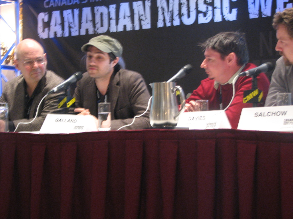 Picture of Singer/Director Jordan Galland